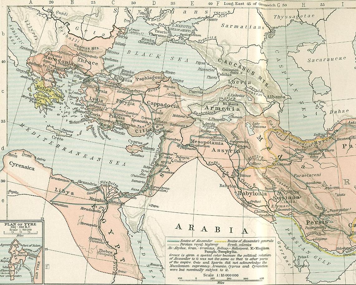 The Macedonian Empire, 336-323 B.C. AND Kingdoms of the Diadochi . Historical Atlas by William R. Shepherd, 1911. Courtesy of the University of Texas Libraries, The University of Texas at Austin. From The Historical Atlas by William R. Shepherd, 1911 edition